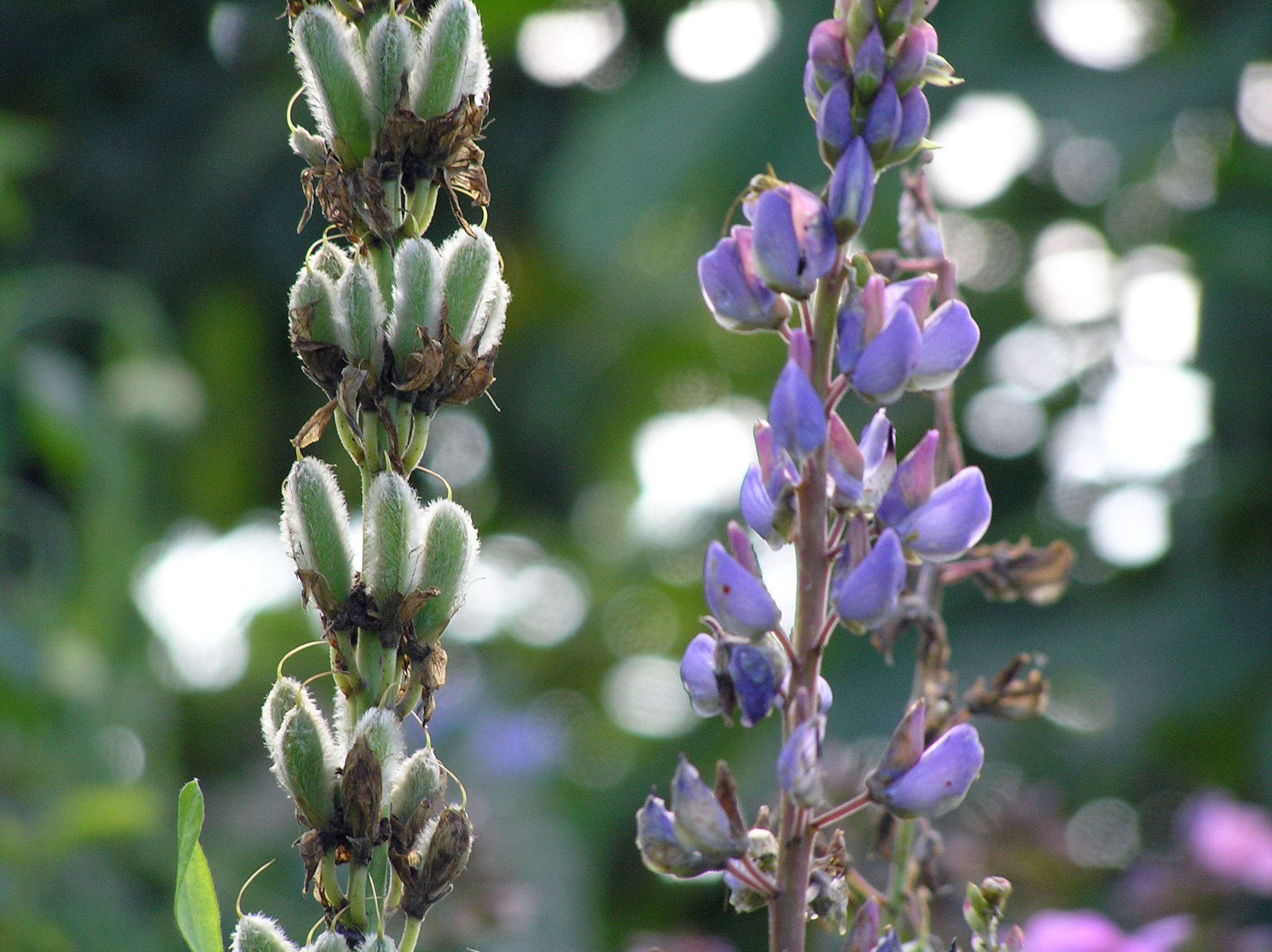 Estonia, Põlva County